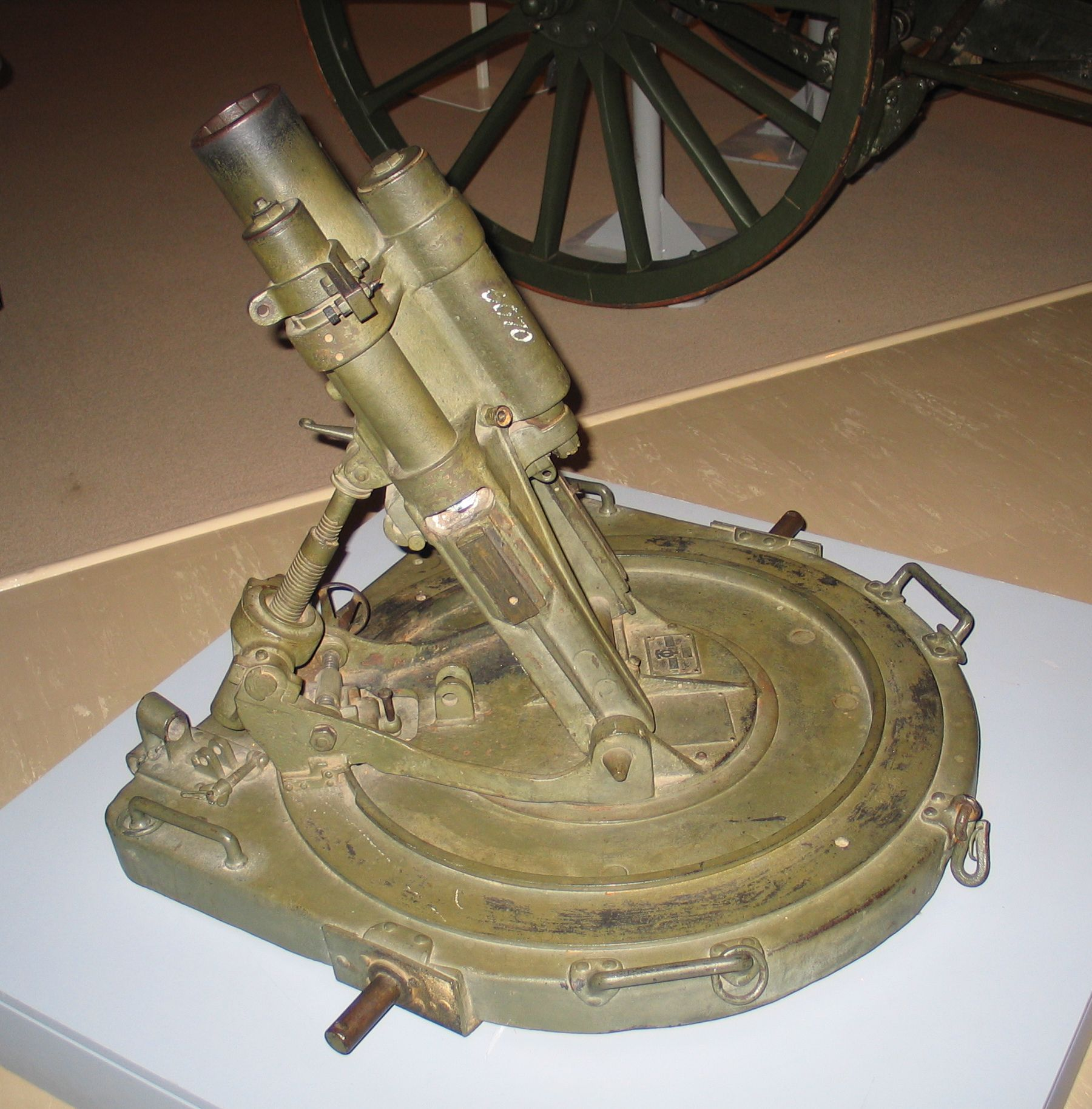 German 7,58 cm Minenwerfer displayed in Australian War Memorial, Canberra, Australia. Australian War Memorial exhibit ID Number: RELAWM05070